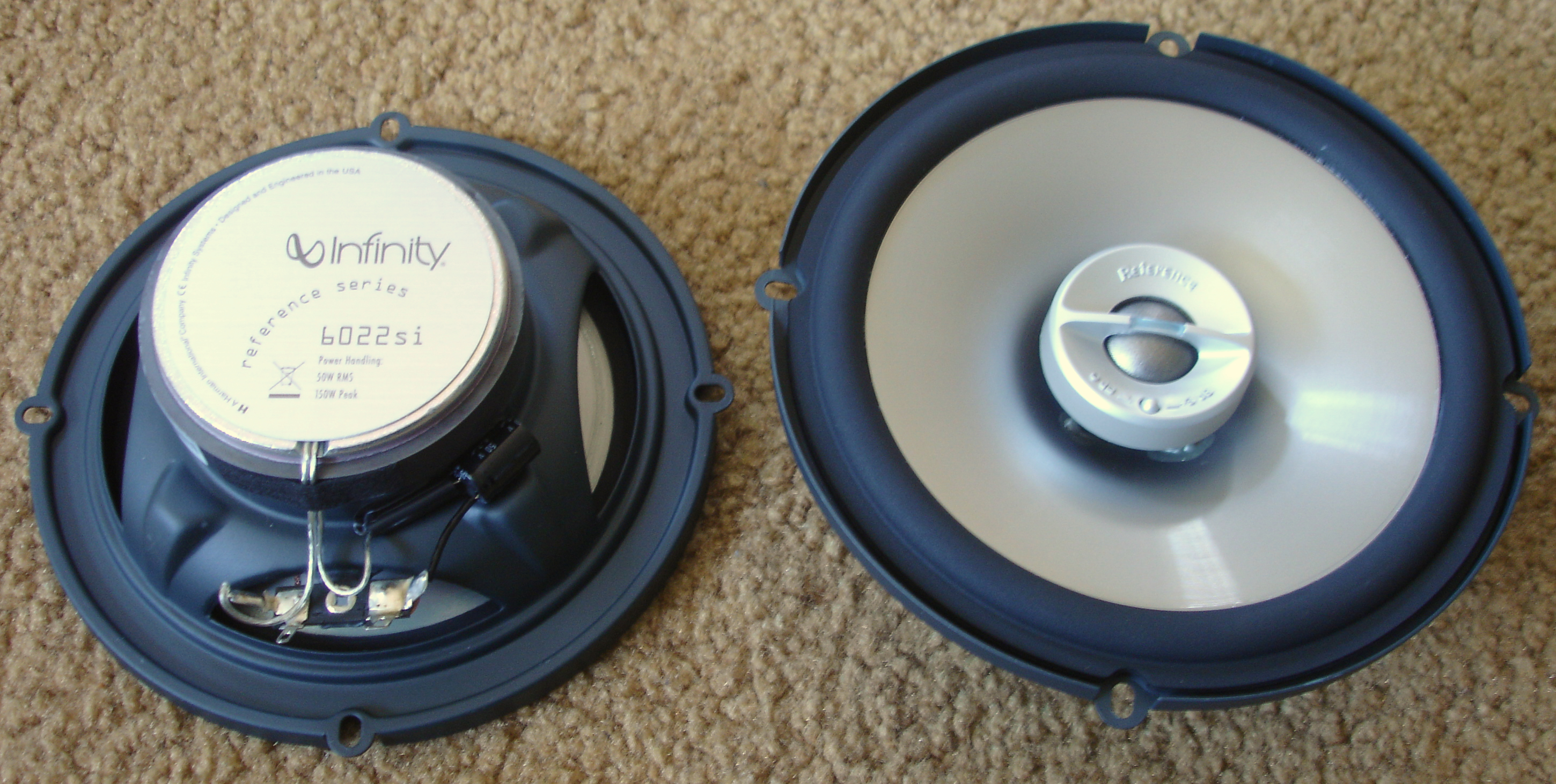 Infinity Reference Series 6022si (shallow-mount) 6.5" 2-ohm 50-watt RMS car speakers. Top view.